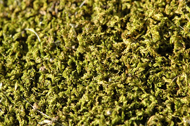 Picture taken in Commanster, Belgian High Ardennes . Species: Campylopus flexuosus